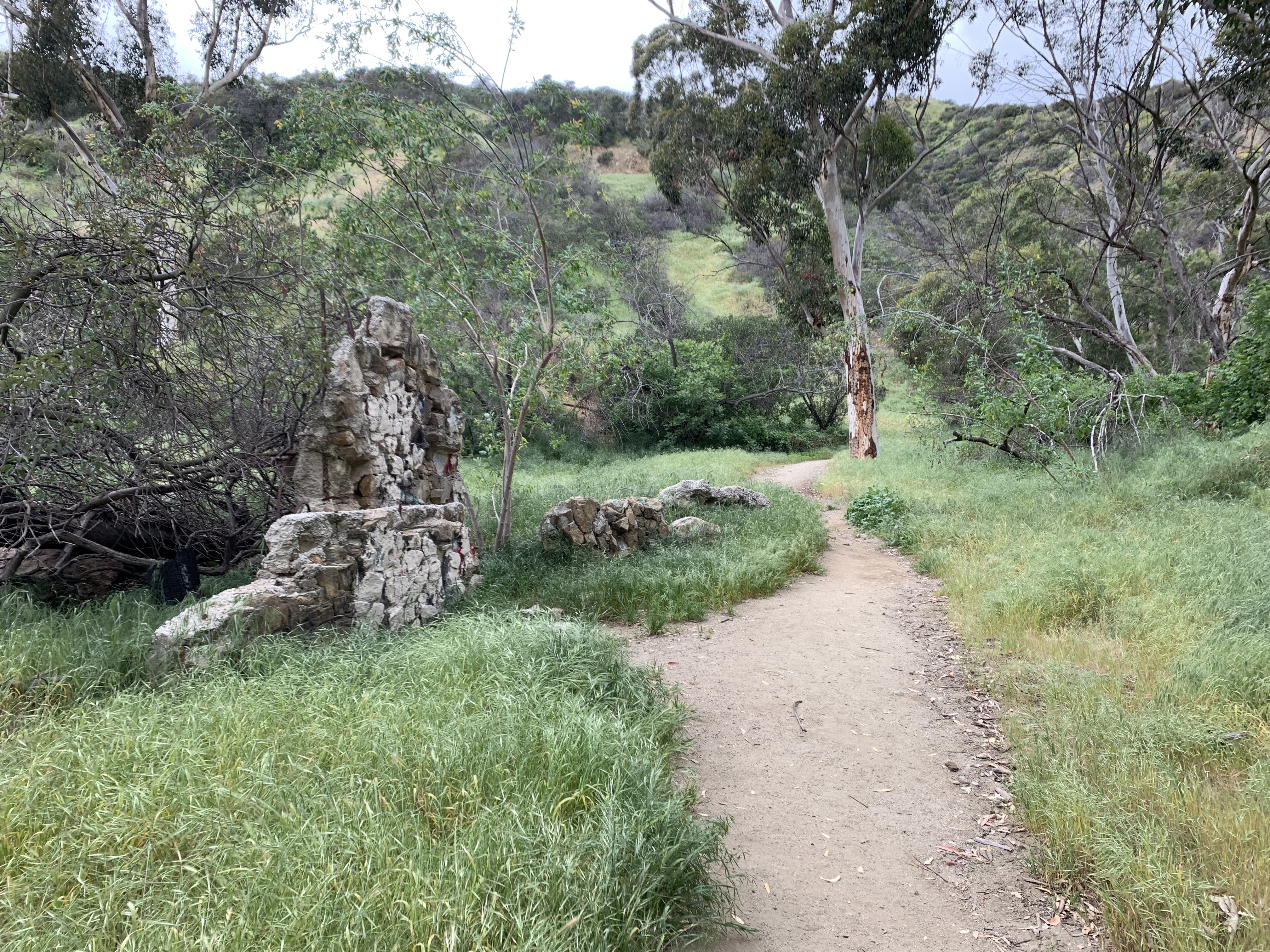 Example of ruins in Runyon Canyon Park.